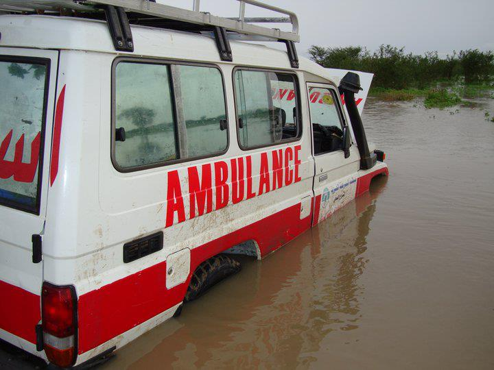 صورة لسيارة اسعاف في فصل الخريف وهي تعبر الوديان This is an image with the theme "Africa on the Move or Transport" from: Sudan